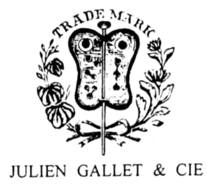 A scan of an image created by Julien Gallet prior to 1923 and therefore in public domain. Original trademark registered in 1896 and abandoned due to non-renewal after the 10 year renewal deadline. No copyright protection currently exists for this image as of the upload date.